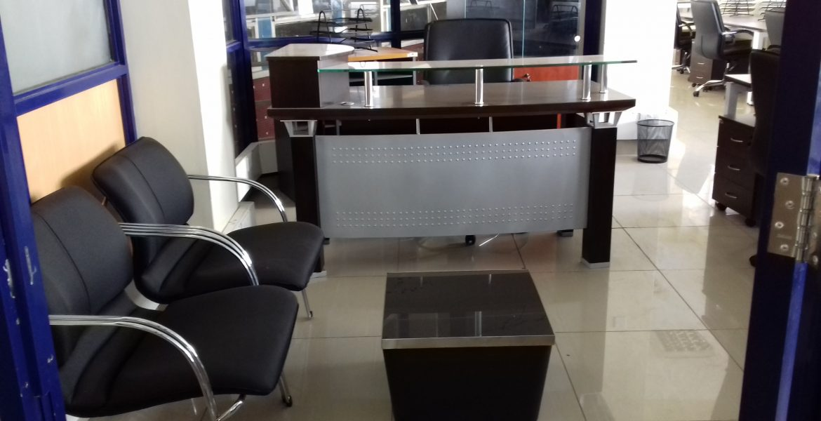 Kangai Technologies Office Location